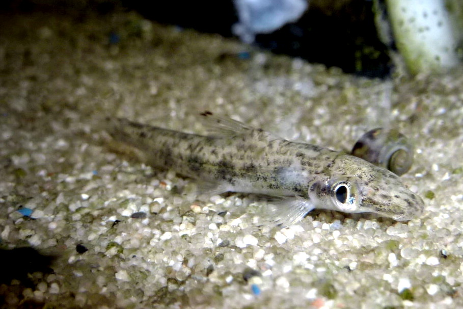 Psilorhynchus sucatio